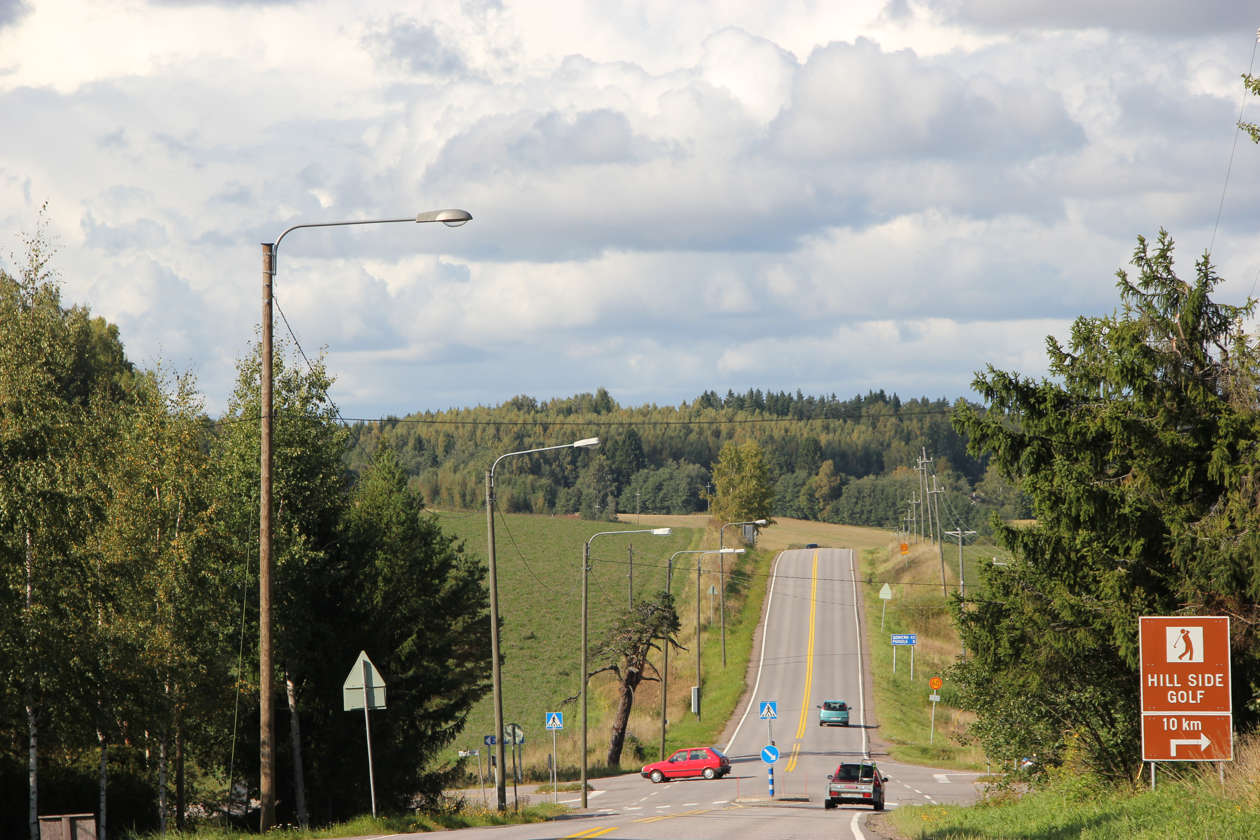 Crossroads in Koisjärvi, Nummi-Pusula, Finland